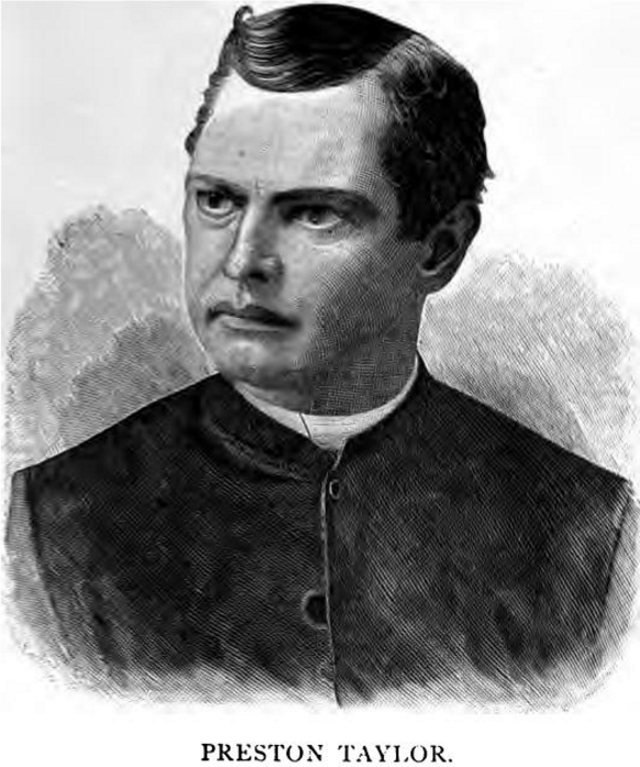 Image of Taylor from 1887